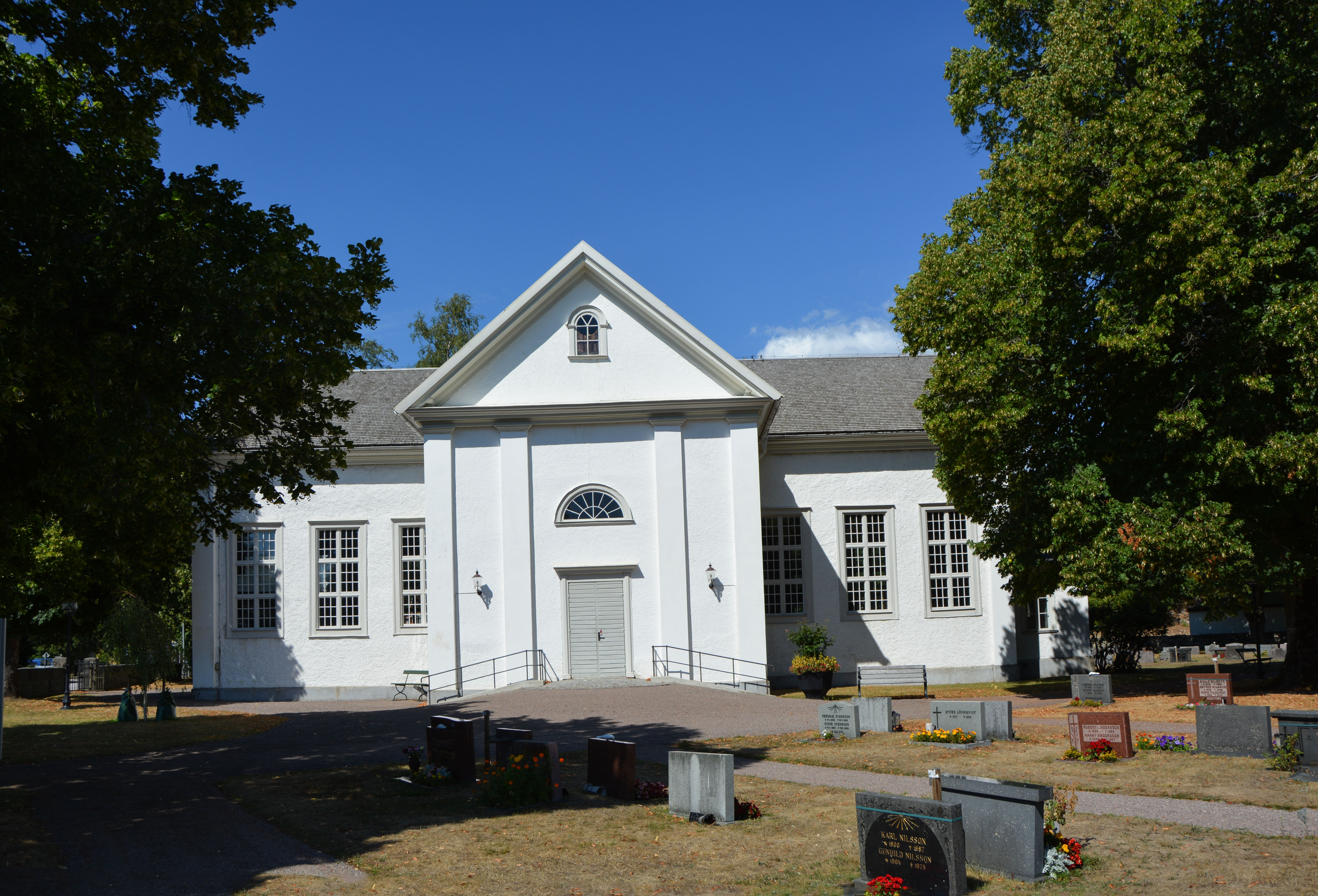 Backaryd Church. Exterior of the church looking South.